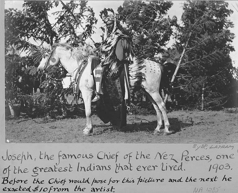 Nez Perce Chief Joseph on horseback, Colville Indian Reservation, Washington, 1903